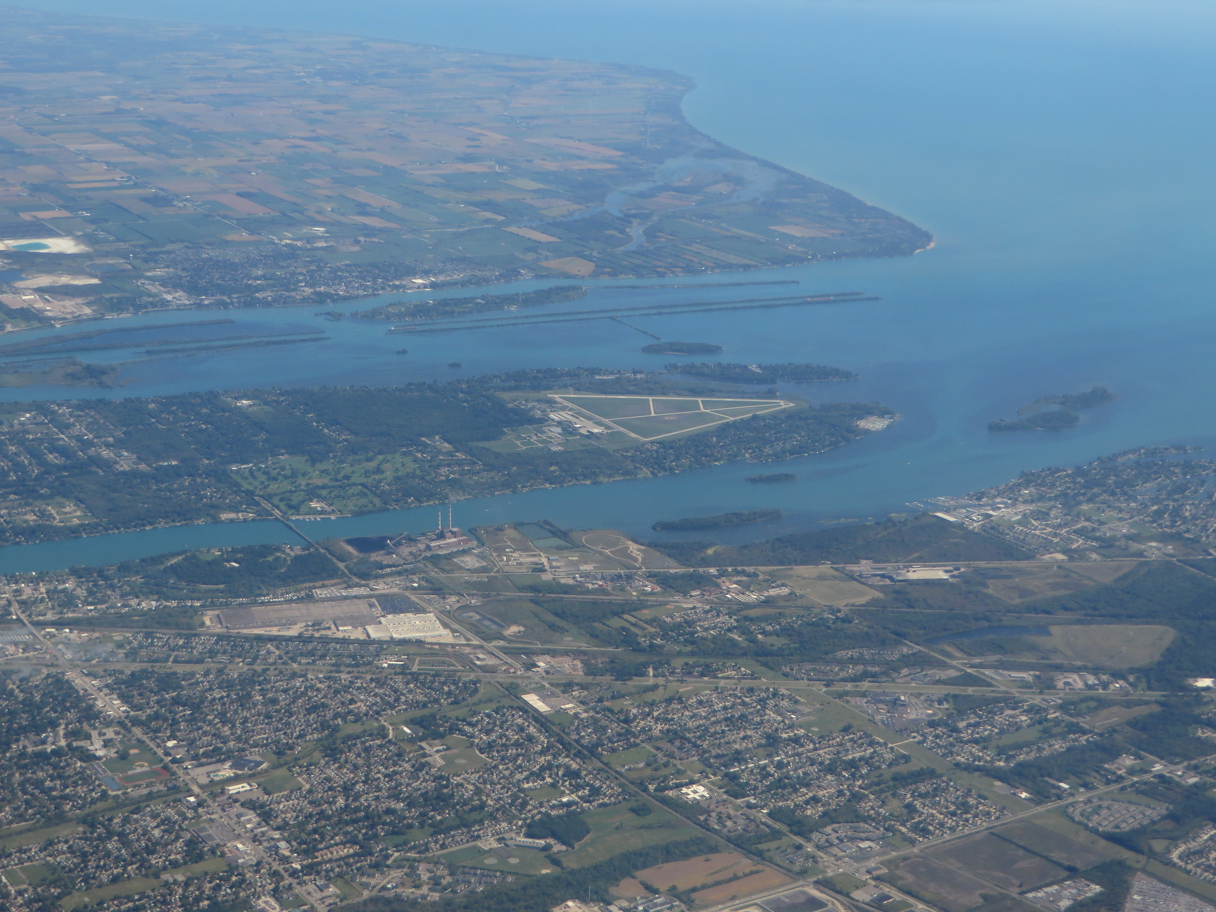 Lake Erie is the fourth largest lake (by surface area) of the five Great Lakes in North America, and the thirteenth largest globally if measured in terms of surface area. It is the southernmost, shallowest, and smallest by volume of the Great Lakes and therefore also has the shortest average water residence time. At its deepest point Lake Erie is 210 feet (64 metres) deep. Lake Erie's northern shore is bounded by the Canadian province of Ontario, with US states of Ohio, Pennsylvania and New York on its southern and easternmost shores and Michigan on the west. These jurisdictions divide the surface area of the lake by water boundaries. The lake was named by the Erie tribe of Native Americans who lived along its southern shore. That Iroquoian tribe called it "Erige" ("cat") because of its unpredictable and sometimes violently dangerous nature. It is a matter of conjecture whether the lake was named after the tribe, or if the tribe was called "Erie" because of its proximity to the lake. Situated below Lake Huron, Erie's primary inlet is the Detroit River. The main natural outflow from the lake is via the Niagara River, which provides hydroelectric power to Canada and the U.S. as it spins huge turbines near Niagara Falls at Lewiston, New York and Queenston, Ontario. Some outflow occurs via the Welland Canal which diverts water for ship passages from Port Colborne, Ontario on Lake Erie, to St. Catharines on Lake Ontario, an elevation difference of 326 ft (99 m). Lake Erie's environmental health has been an ongoing concern for decades, with issues such as overfishing, pollution and algae blooms and eutrophication generating headlines.